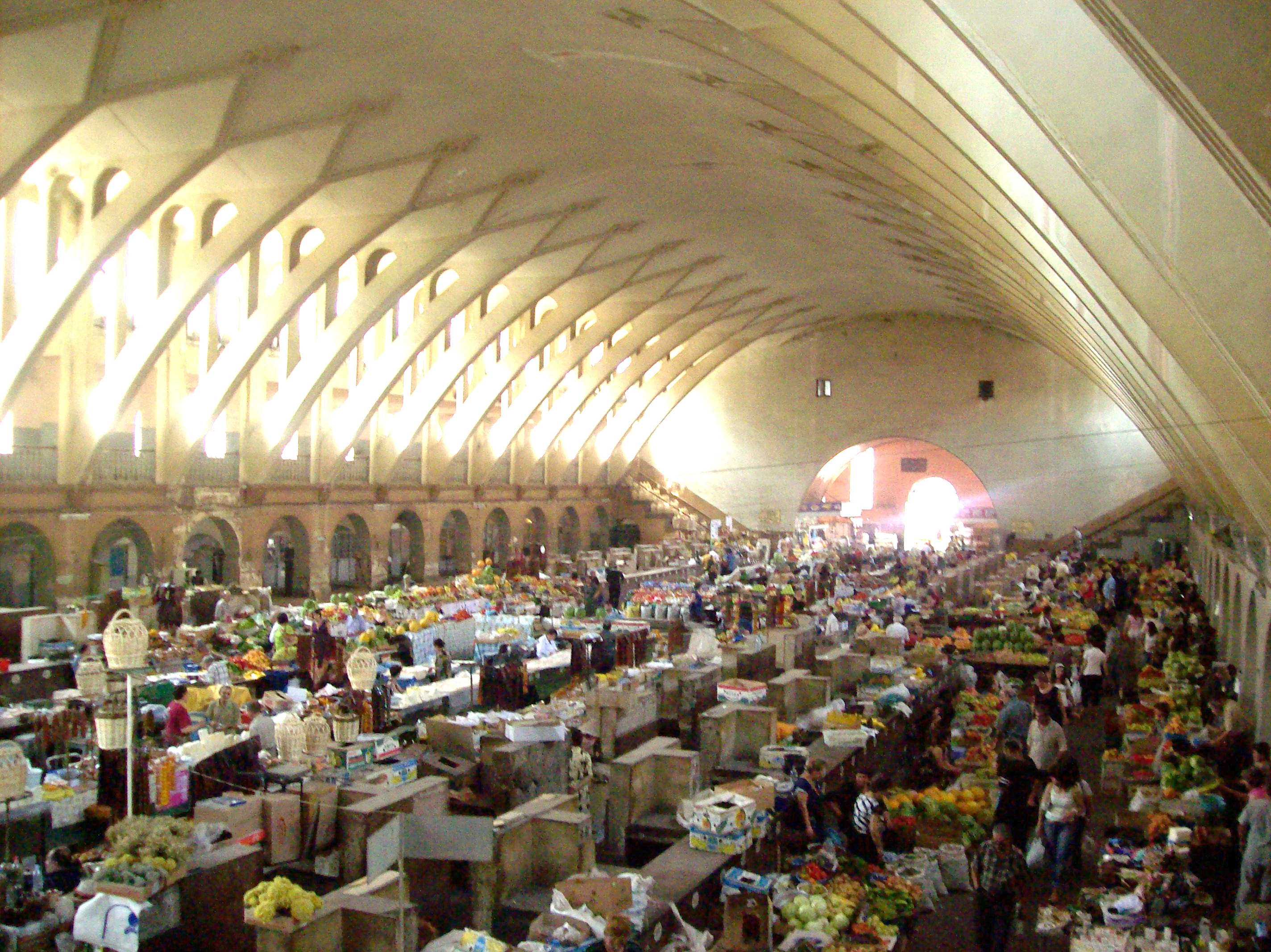 Yerevan's Covered Market interior.